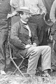 Image of Major Thomas T. Eckert, Chief of the U.S. War Department Telegraph Staff, cropped from a larger image showing him with six members of the U.S. Military Telegraph Corps near Petersburg, Va., in 1864.